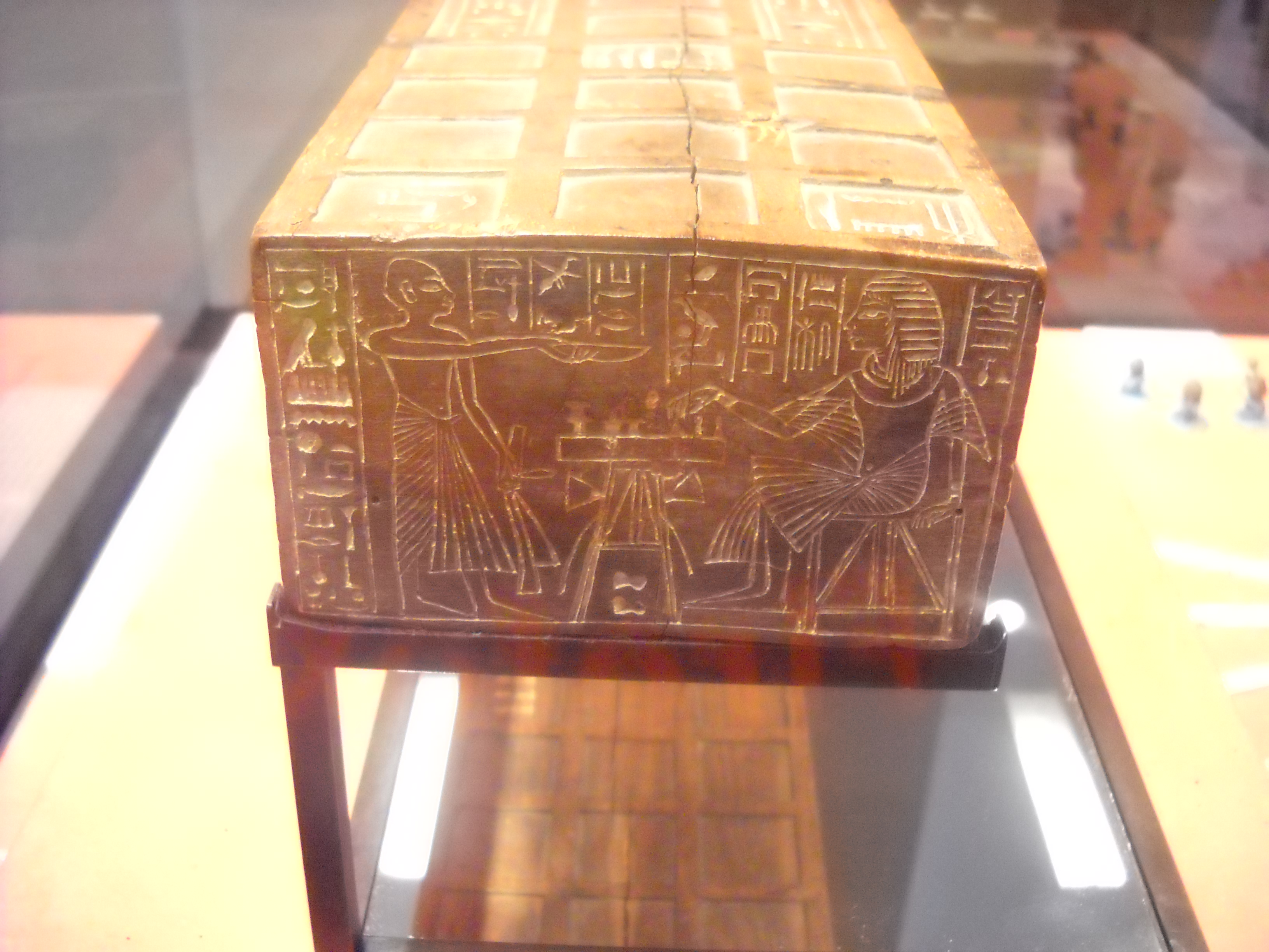 Plateau de jeu de Sénet au nom de la reine Hatchepsout 1479 - 1457 av. J.C. musée du Louvre 2014